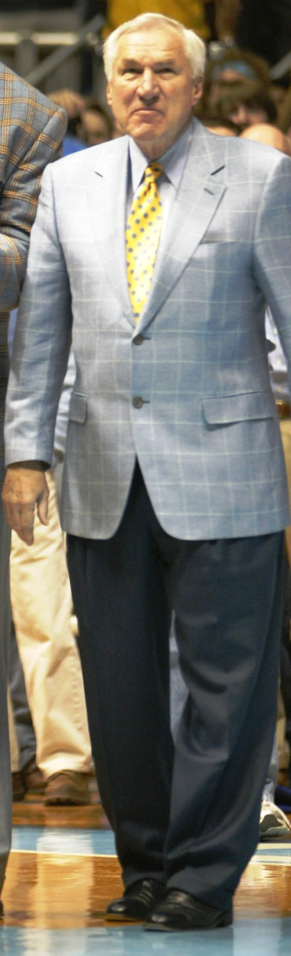 Cropped image of Image:JordanSmithWorthy2.jpg by Zeke Smith